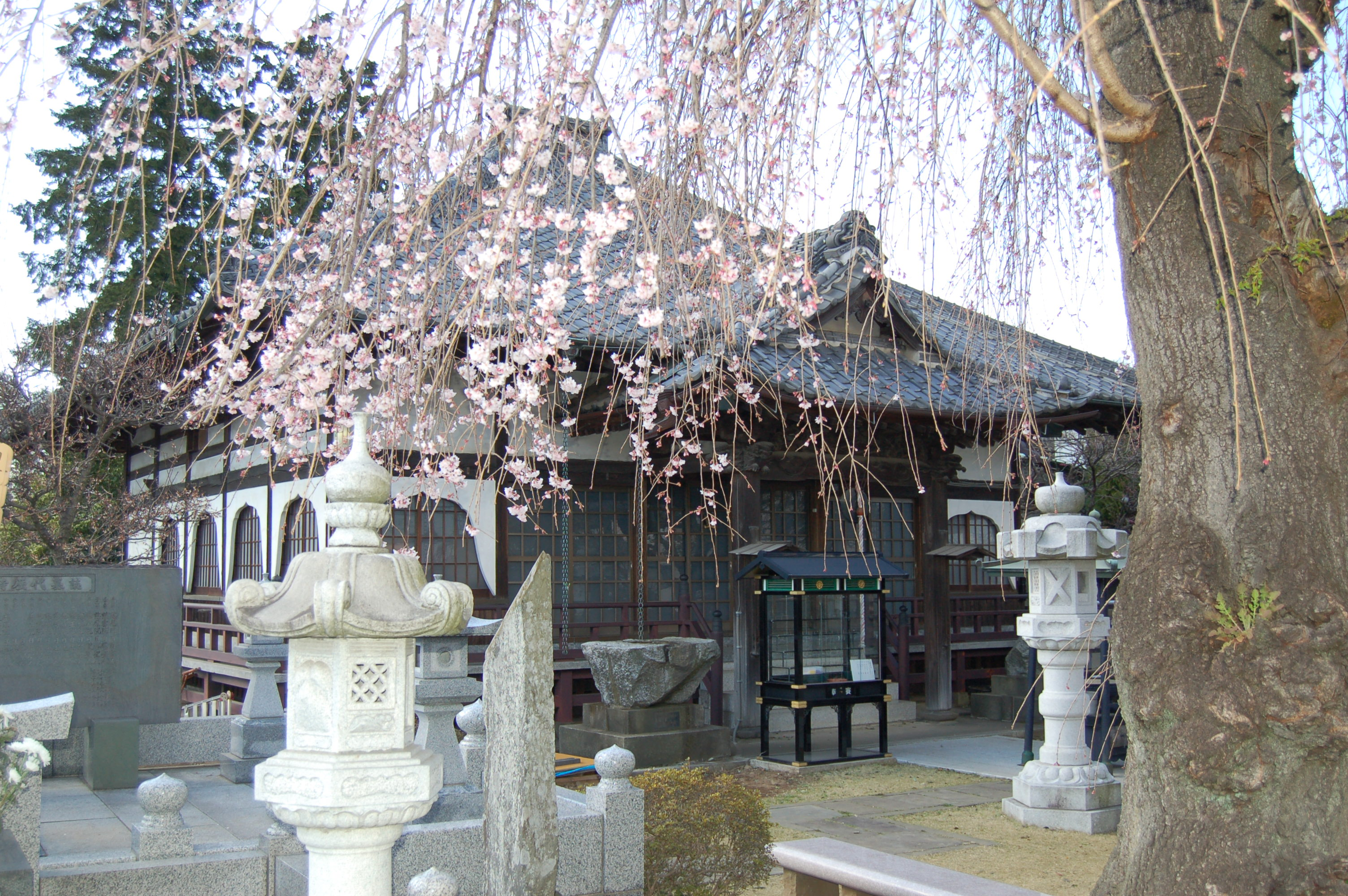 Myokenji temple,Oyama city,Tochigi,Japan Cerasus spachiana f. spachiana(Prunus pendula f. pendula)